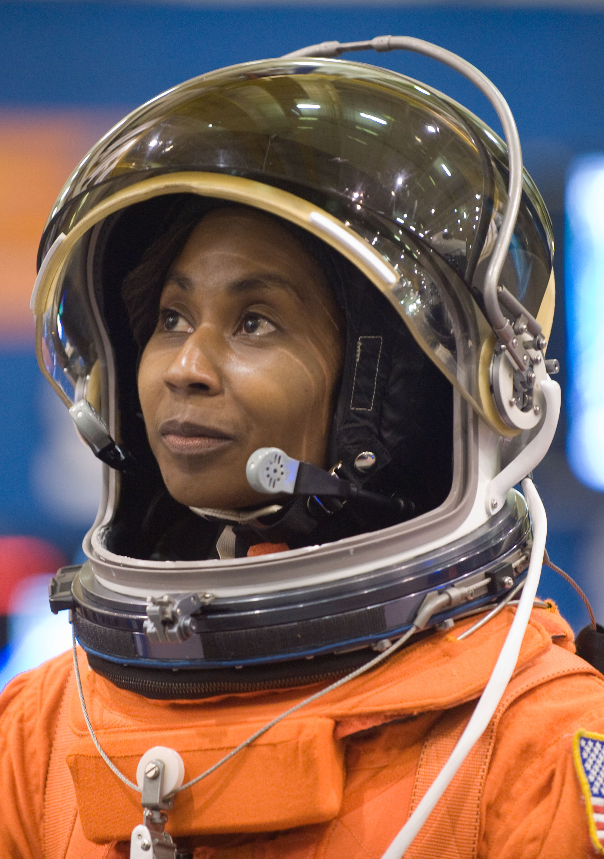 NASA astronaut Stephanie Wilson, STS-131 mission specialist, attired in a training version of her shuttle launch and entry suit, participates in a training session in the Space Vehicle Mock-up Facility at NASA's Johnson Space Center.